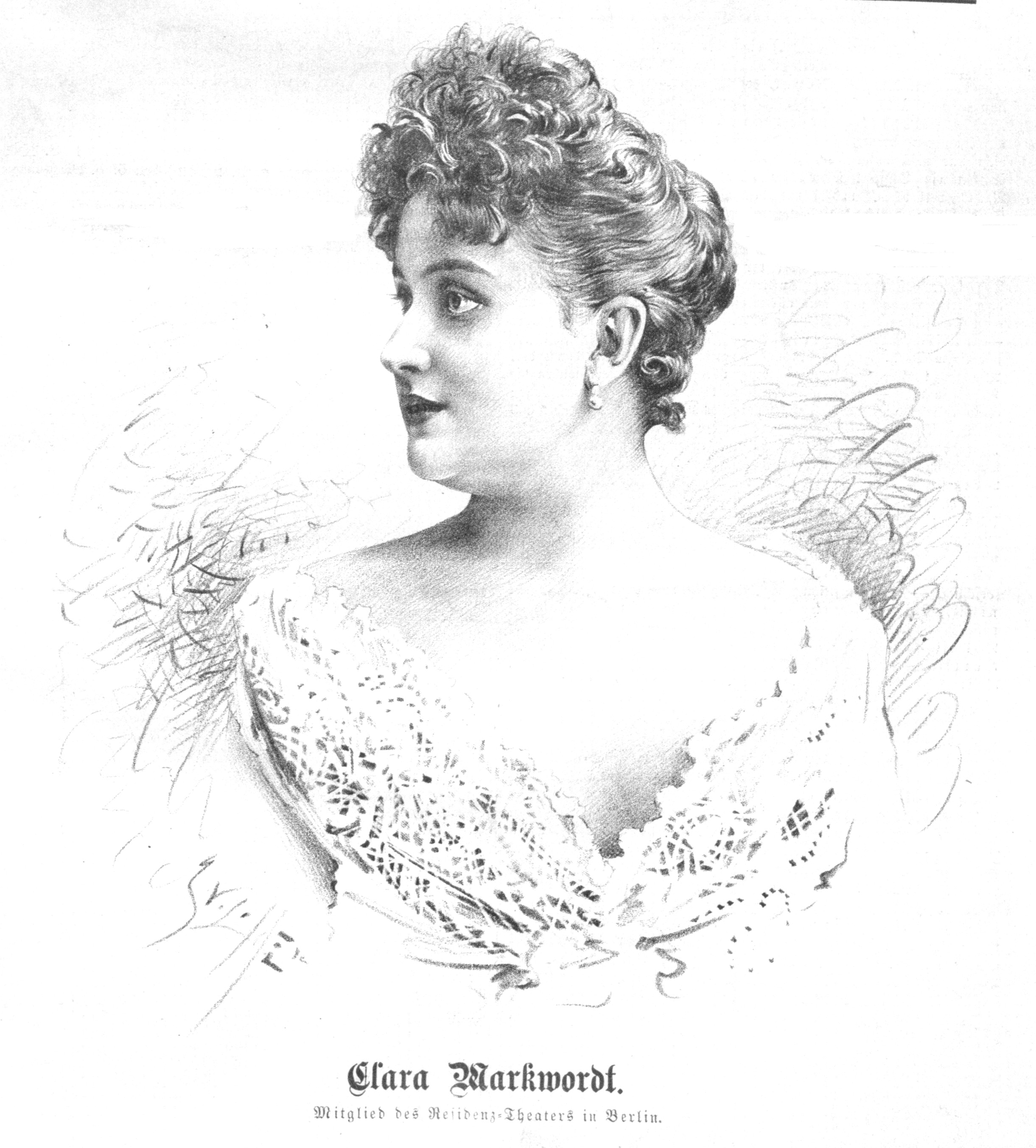 Portrait of Clara Markwordt (1869-??), German and Austrian actress.